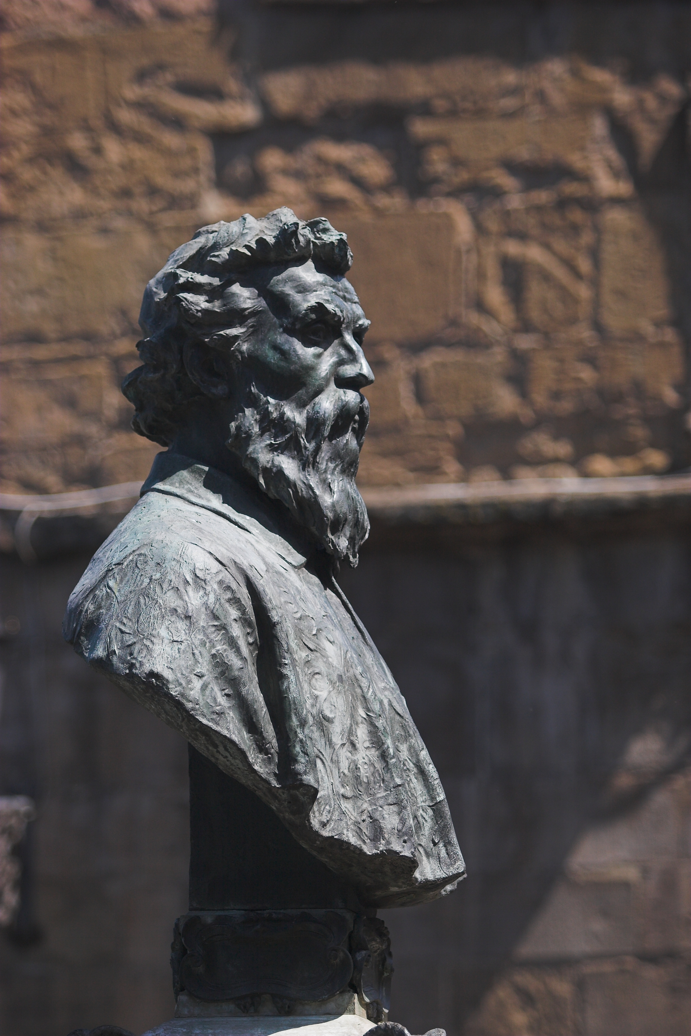 Bust of Benvenuto Cellini, by Raffaello Romanelli (1901), at the centre of the Ponte Vecchio, Firenze, Italy. Photo by Thermos.